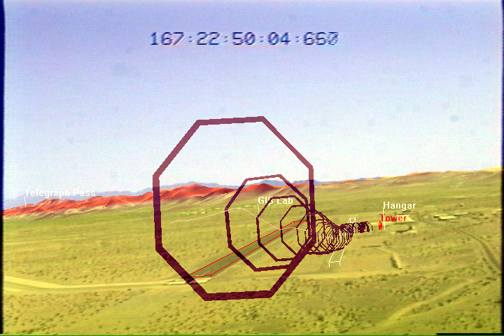 LandForm video with map overlays showing landmarks and other indicators during helicopter flight at Yuma Proving Ground. Note markers for the hangar and tower at center right.